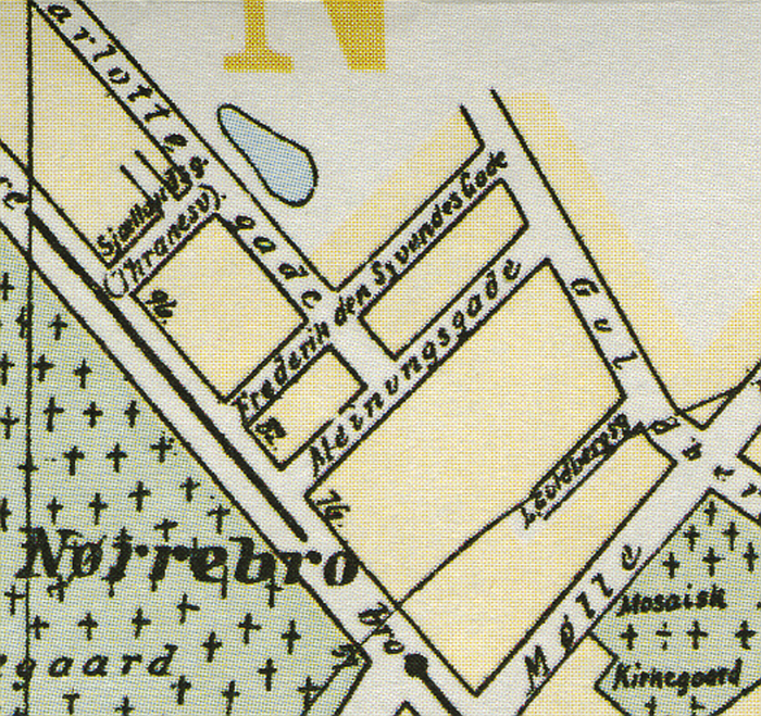 Map detail showing Frederik den VII’s Gade, Meinungsgade and Sjællandsgade in Nørrebro, Copenhagen, Denmark. Sjællandsgade was then a short street while Frederik den VII’s Gade continued all the way to Guldbergsgade and not just to Prinsesse Charlottes Gade as it does now.